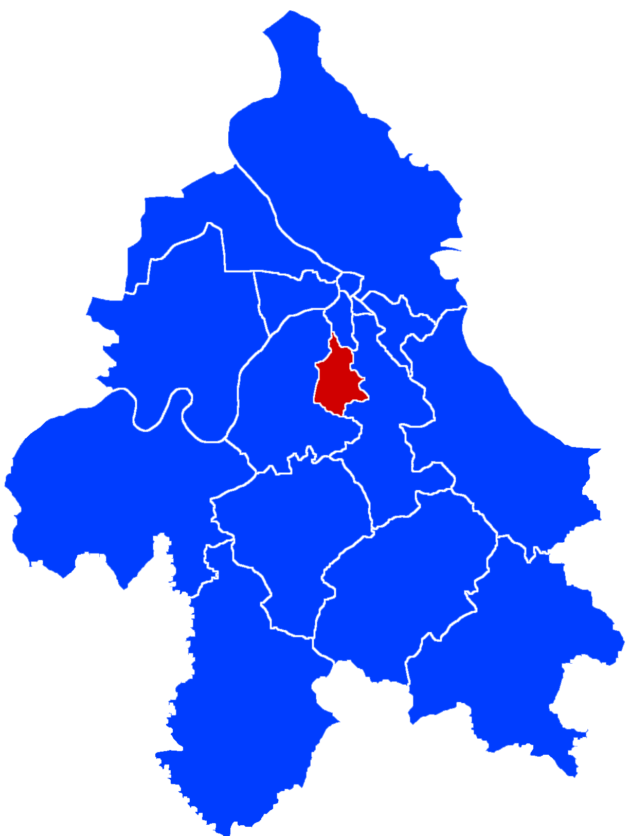 The graphical representation of the municipality of Rakovica within the city of Belgrade